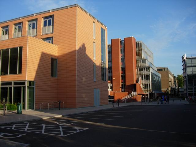 Sidgwick site This is where most of the arts faculties of Cambridge University are located. This is the northern part of the complex.